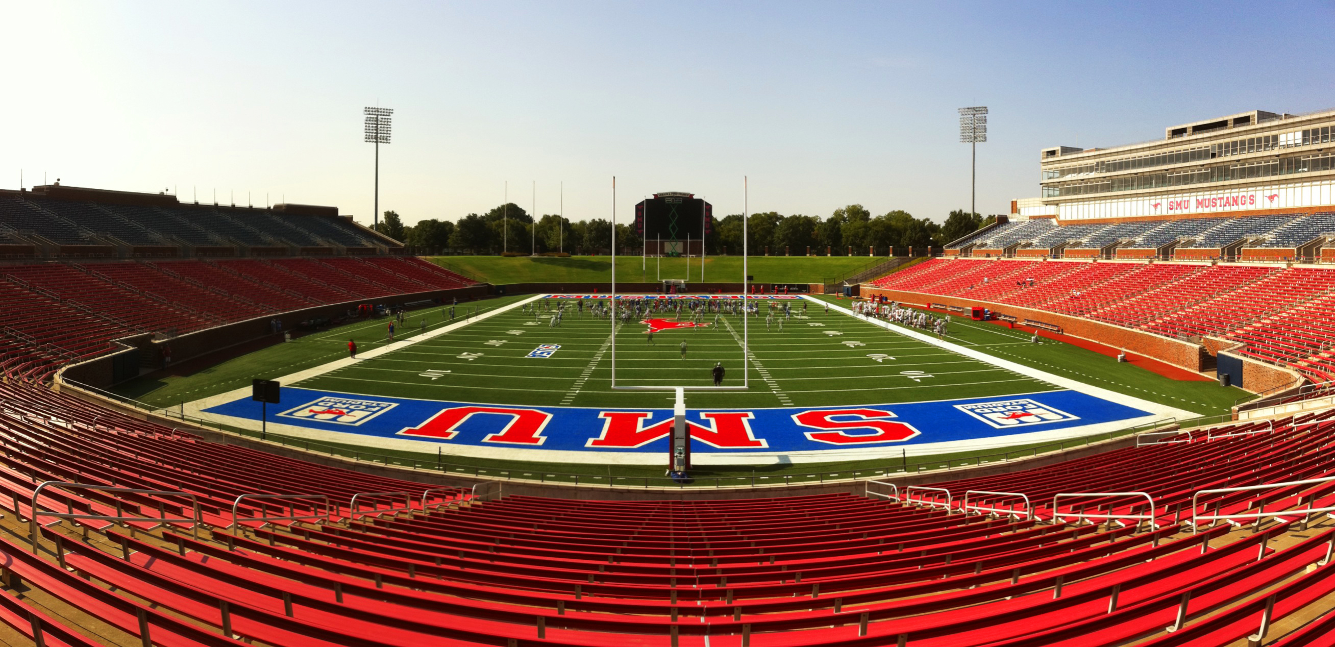 Interior of Gerald J. Ford Stadium at SMU